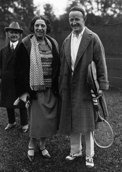 Tennis players Suzanne Lenglen and Bill Johnston at the French Championships in Saint-Cloud in 1923.